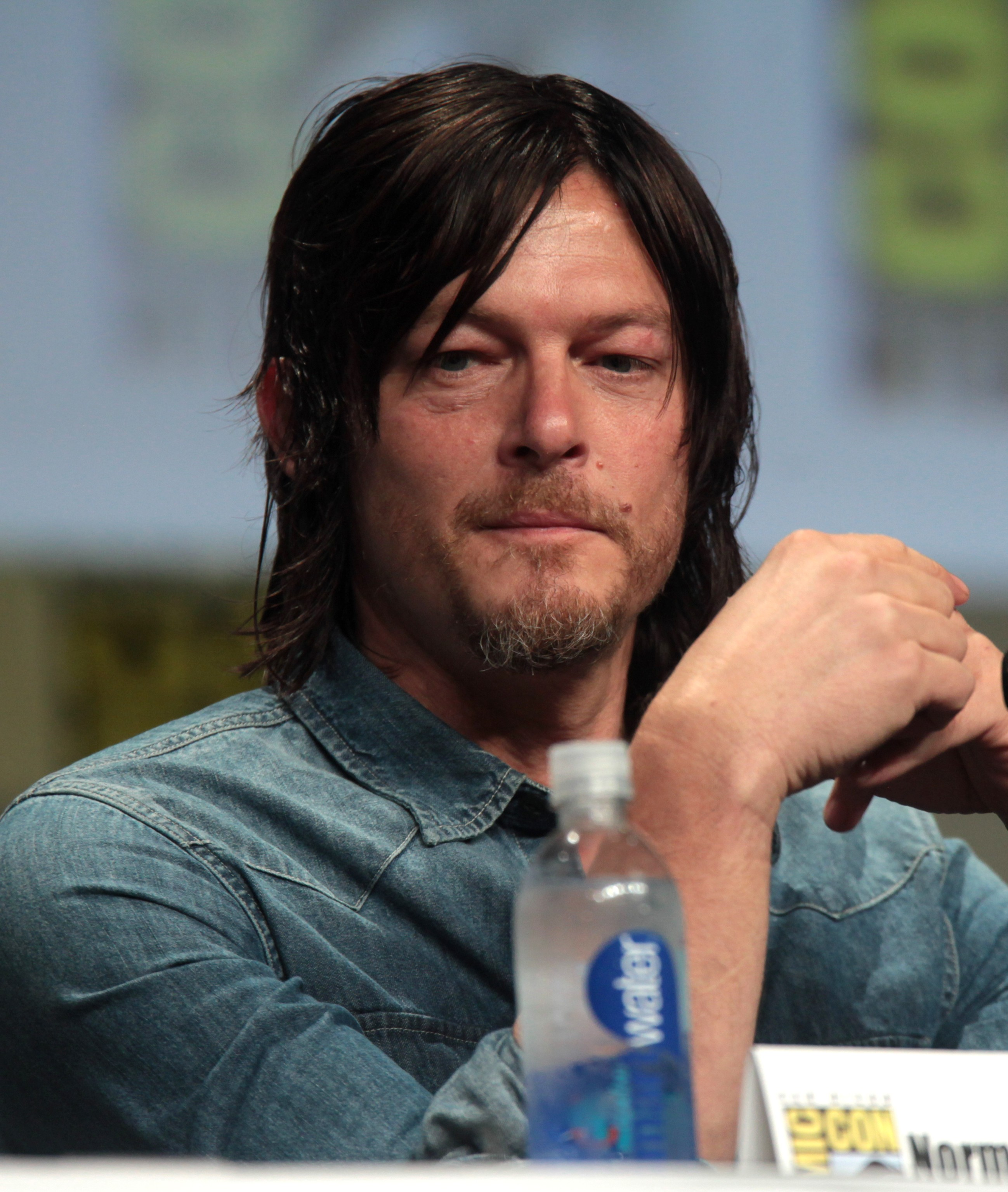 Norman Reedus speaking at the 2014 San Diego Comic Con International, for "The Walking Dead", at the San Diego Convention Center in San Diego, California.